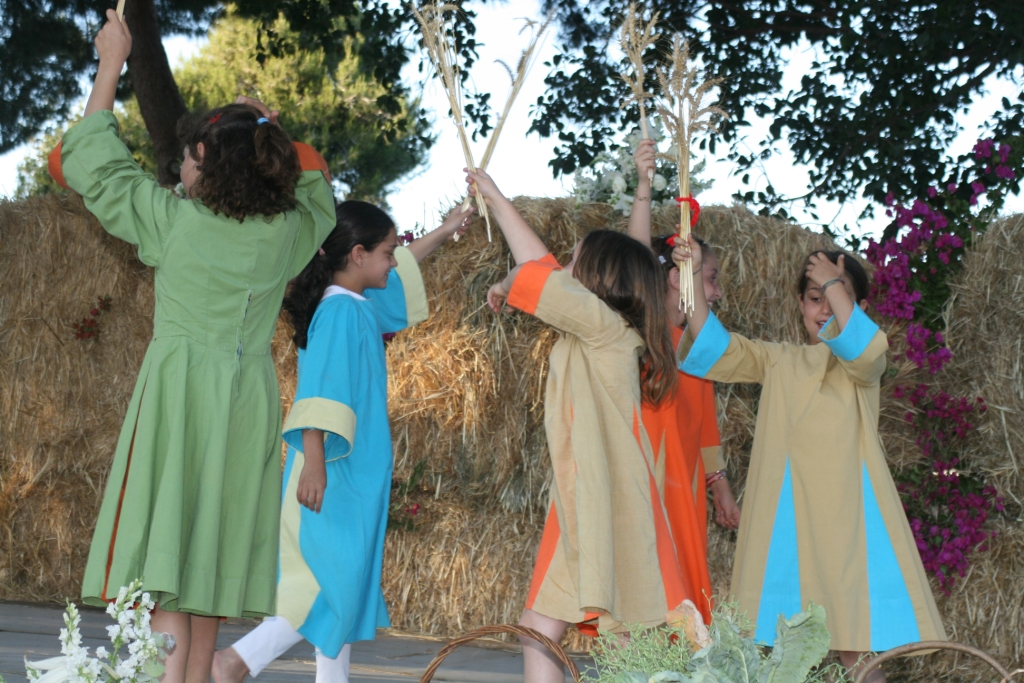 nir eliyahu, Jewish holidays